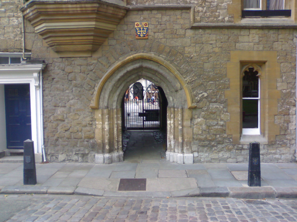 The entrance to Little Dean's Yard, part of Westminster School